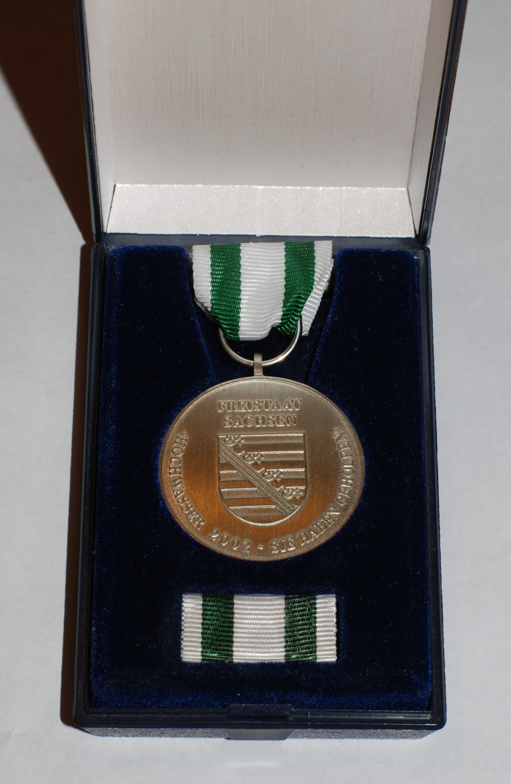 Saxoninan Flood Medal